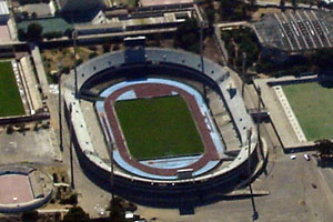 An Aerial View of 11 june Stadium Tripoli-Libya - I did take this photo by my Sony P-200 Digital camera From the air